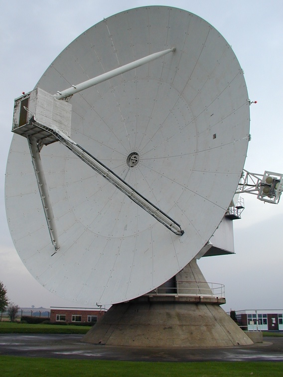 A photograph of the 25 metre steerable antenna at the Chilbolton Observatory. I took this photograph in 1999, after the dish was cleaned for the first time since installation in 1967.